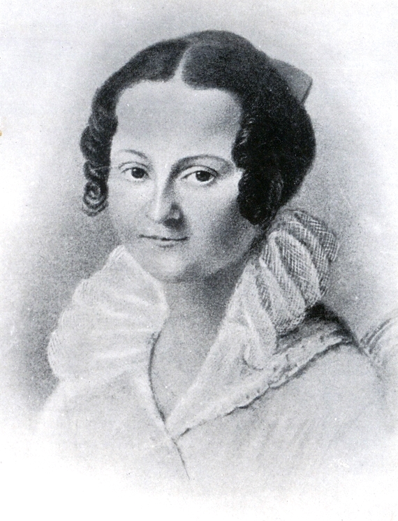 Fyodor Dostoyevsky's mother, Maria Fyodorovna Dostoyevskaya , pastel, 1823